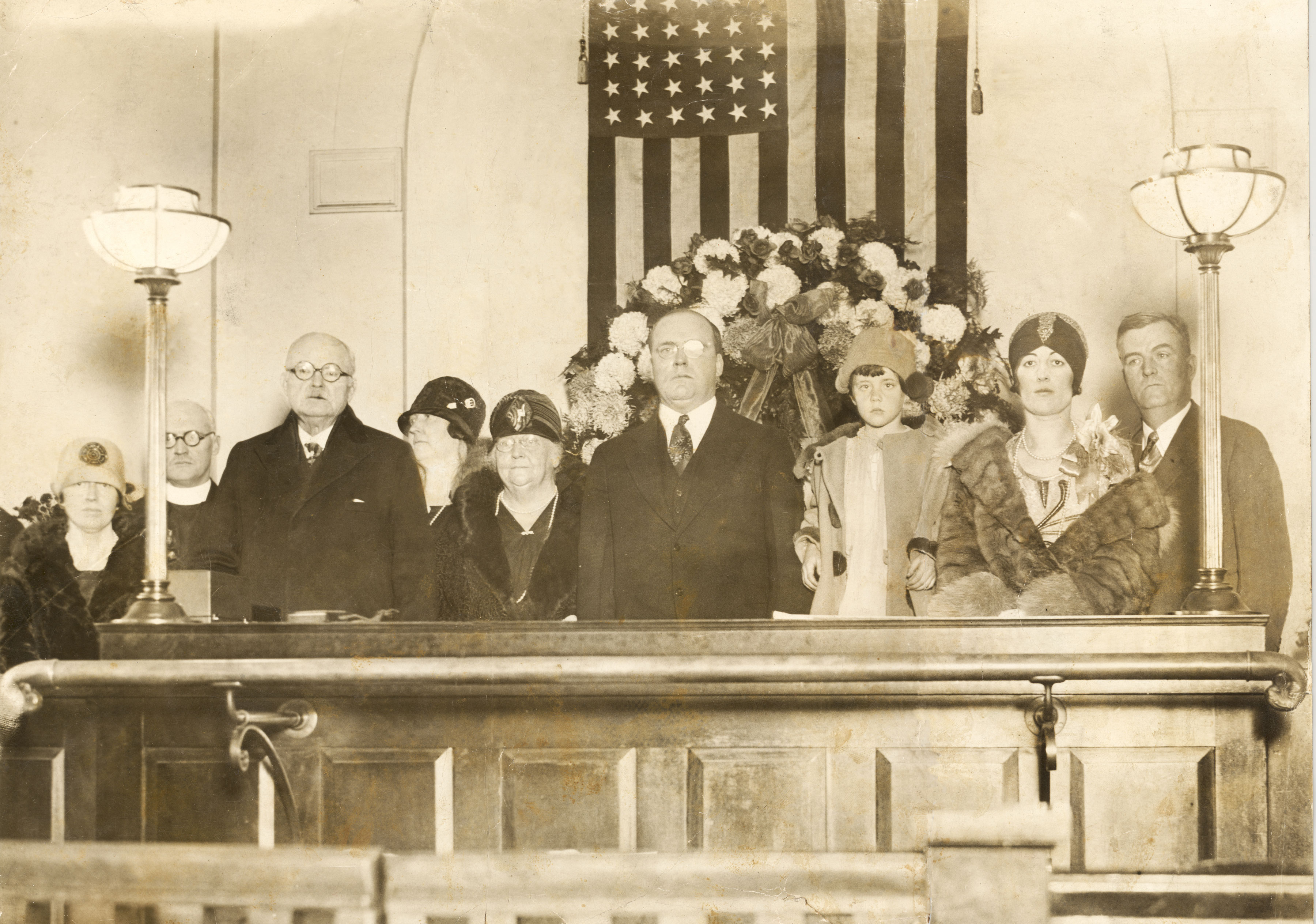 Leo H. Healy installed on the Brooklyn Homicide Court surrounded by his family 1927 photograph, original owned by Leo J. Titus, Jr.